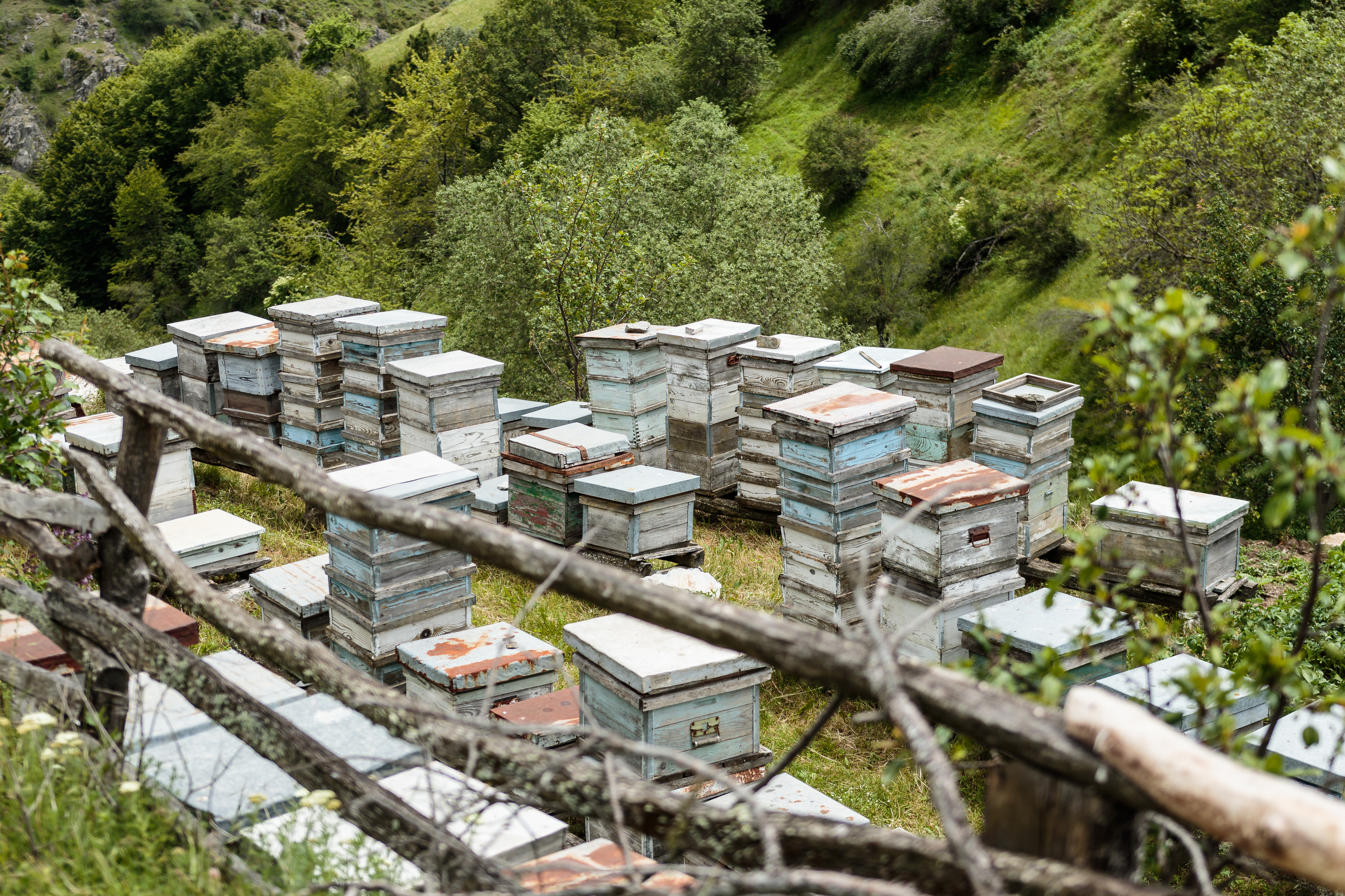 View of the village Zašle